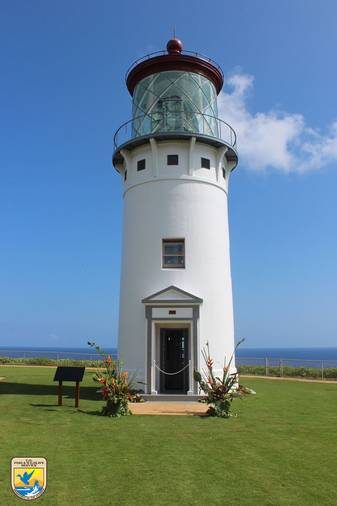 The restored Daniel K. Inouye Kilauea Point Lighthouse before the official reopening ceremony on May 1, 2013. (Photo: Megan Nagel/USFWS)